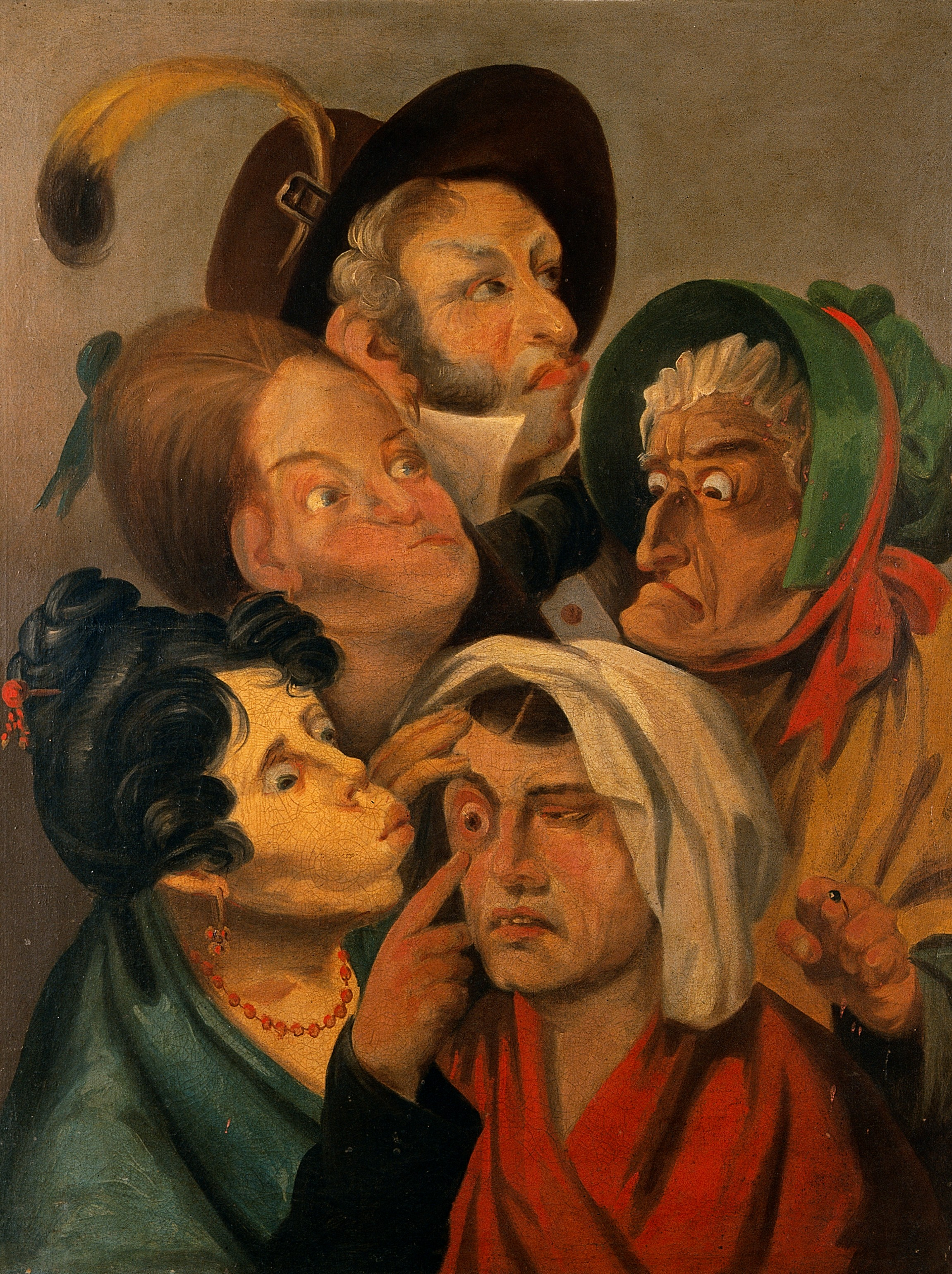 A bizarre physiognomical caricature with a figure pointing to another's sore eye. Oil painting by a follower of Louis-Léopold Boilly. Iconographic Collections Keywords: Louis-Léopold Boilly